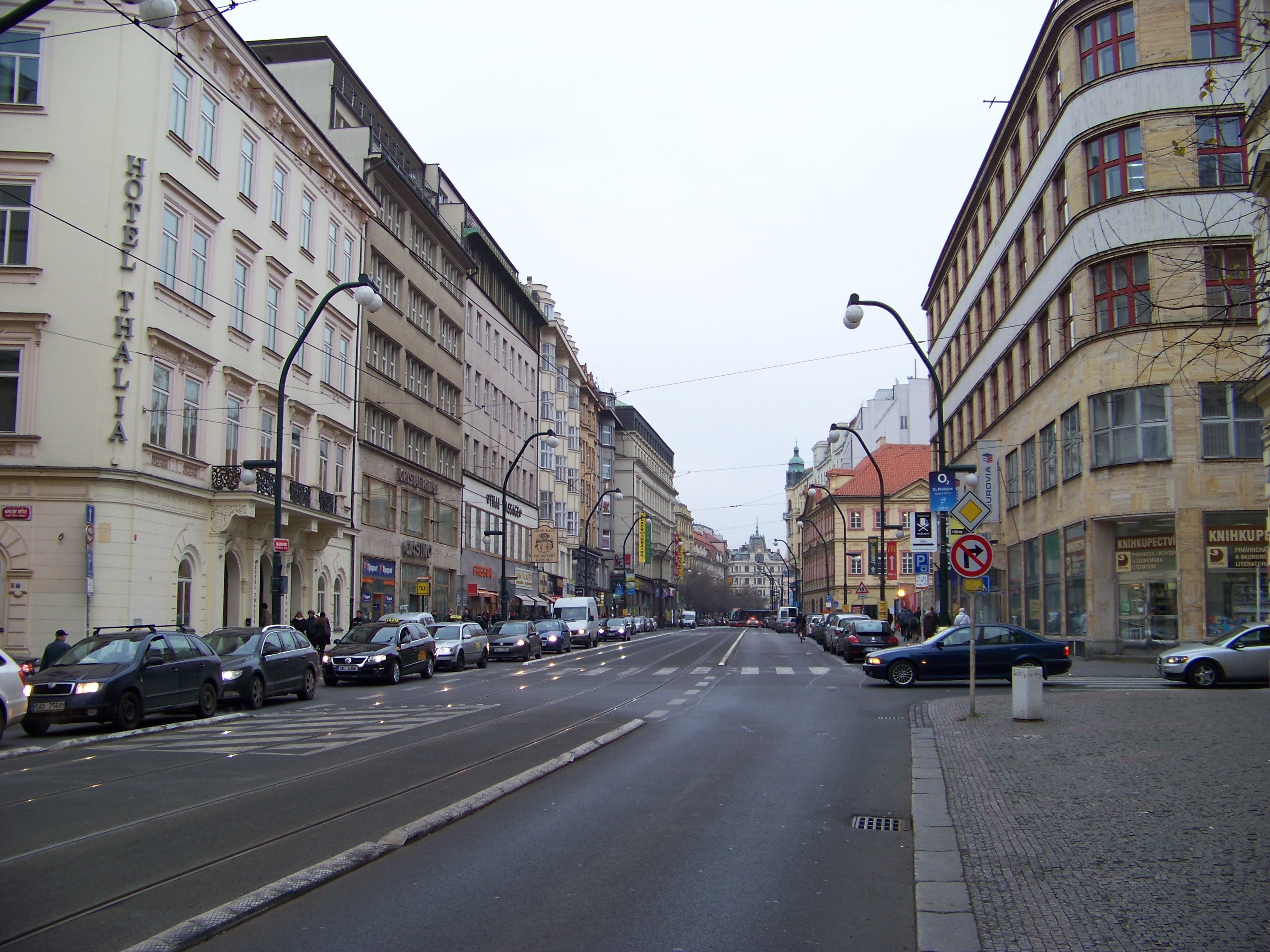 Prague-Old Town and New Town, Czech Republic. Národní street.